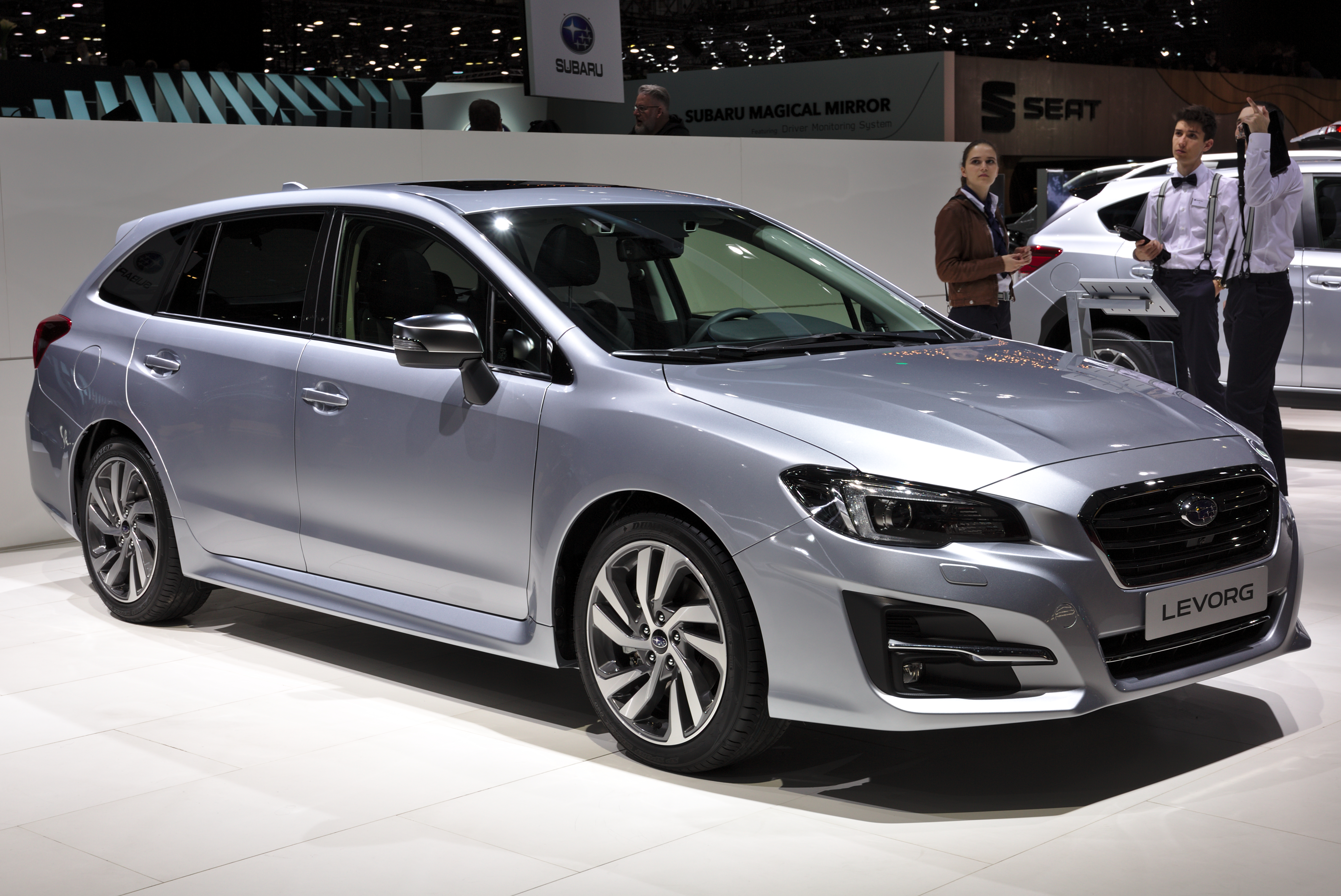 Subaru Levorg at Geneva Motor Show 2019